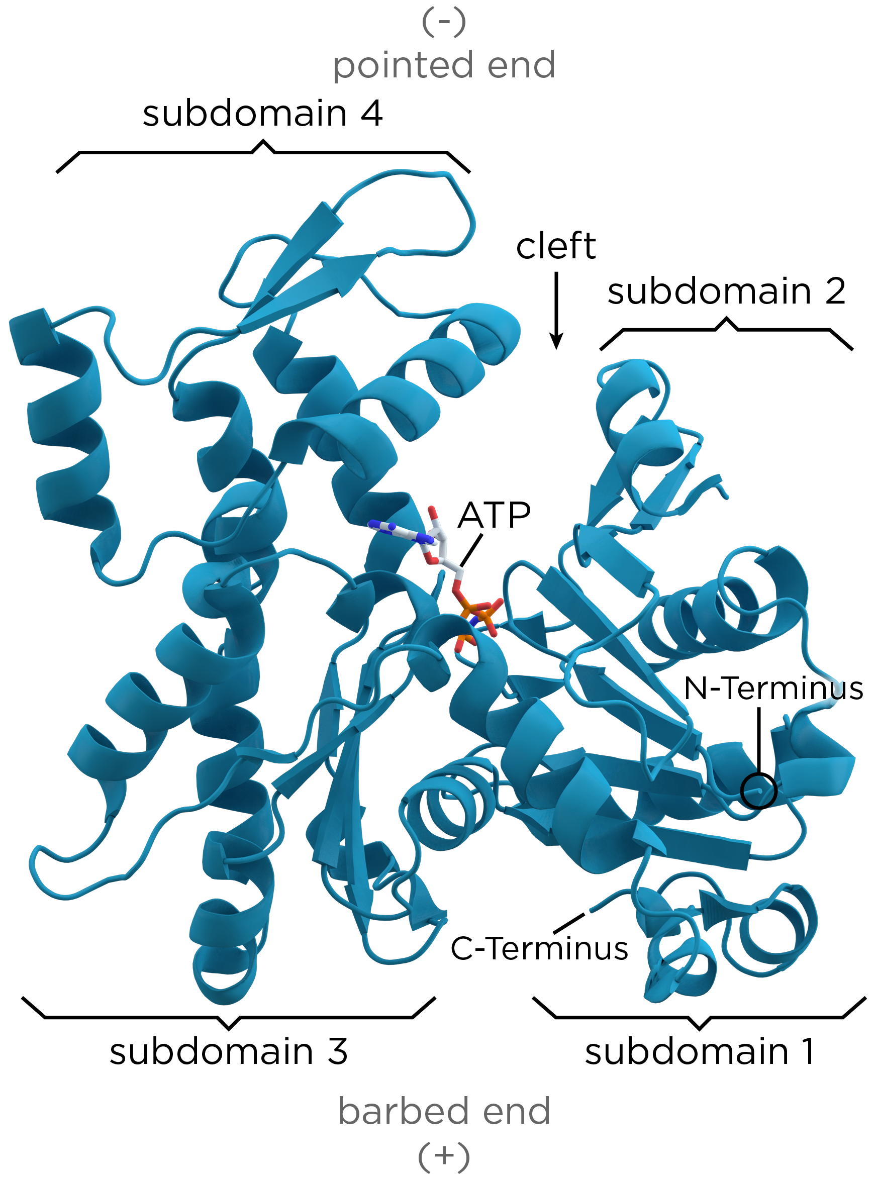 Cartoon representation of rabbit skeletal muscle actin, based on X-ray crystallography structure PDB ID 1NWK by Graceffa & Dominguez, 2003. (The labels of barbed and pointed end refer to the orientation of the actin molecule within the filament.)